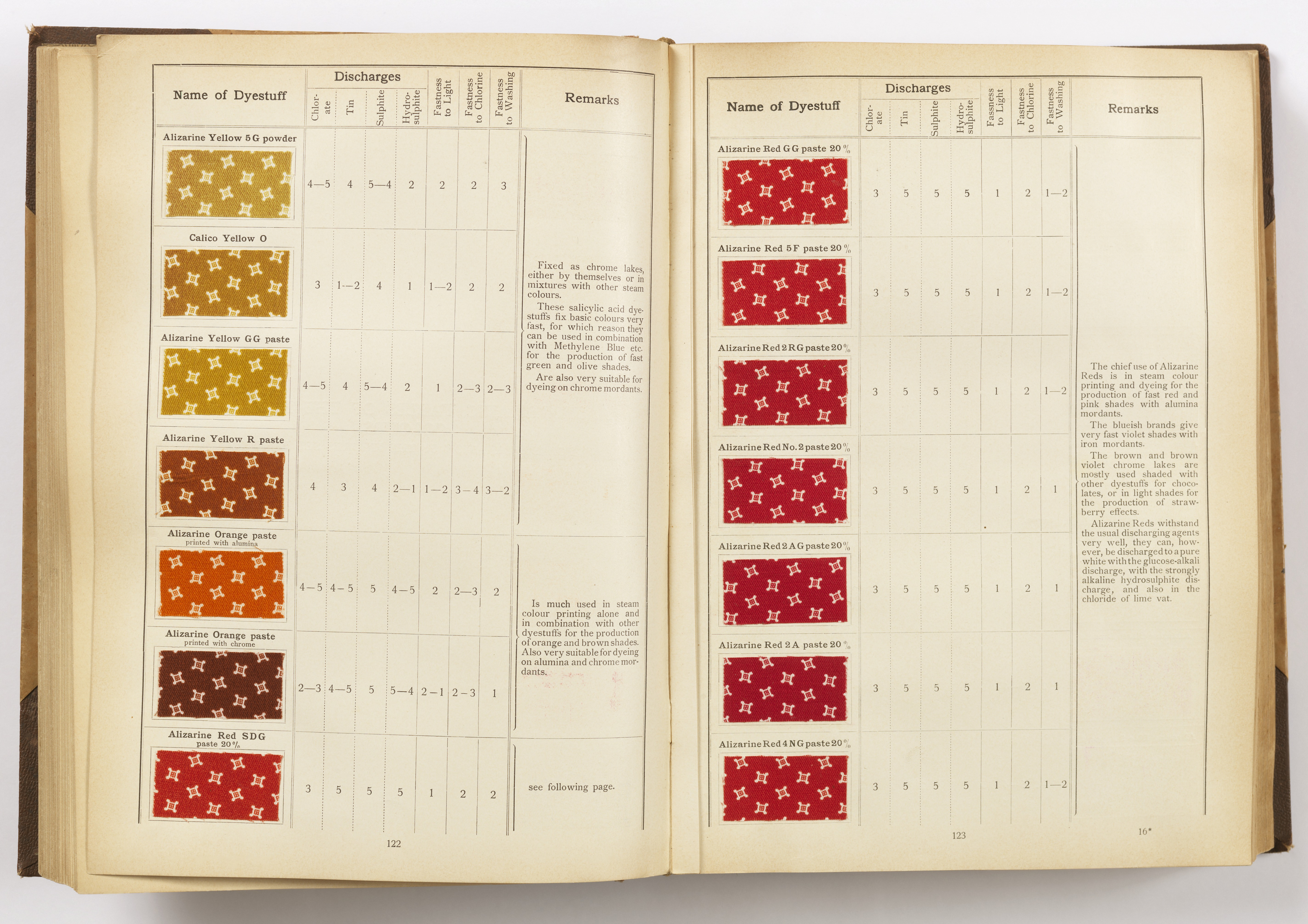 TP930 .M515